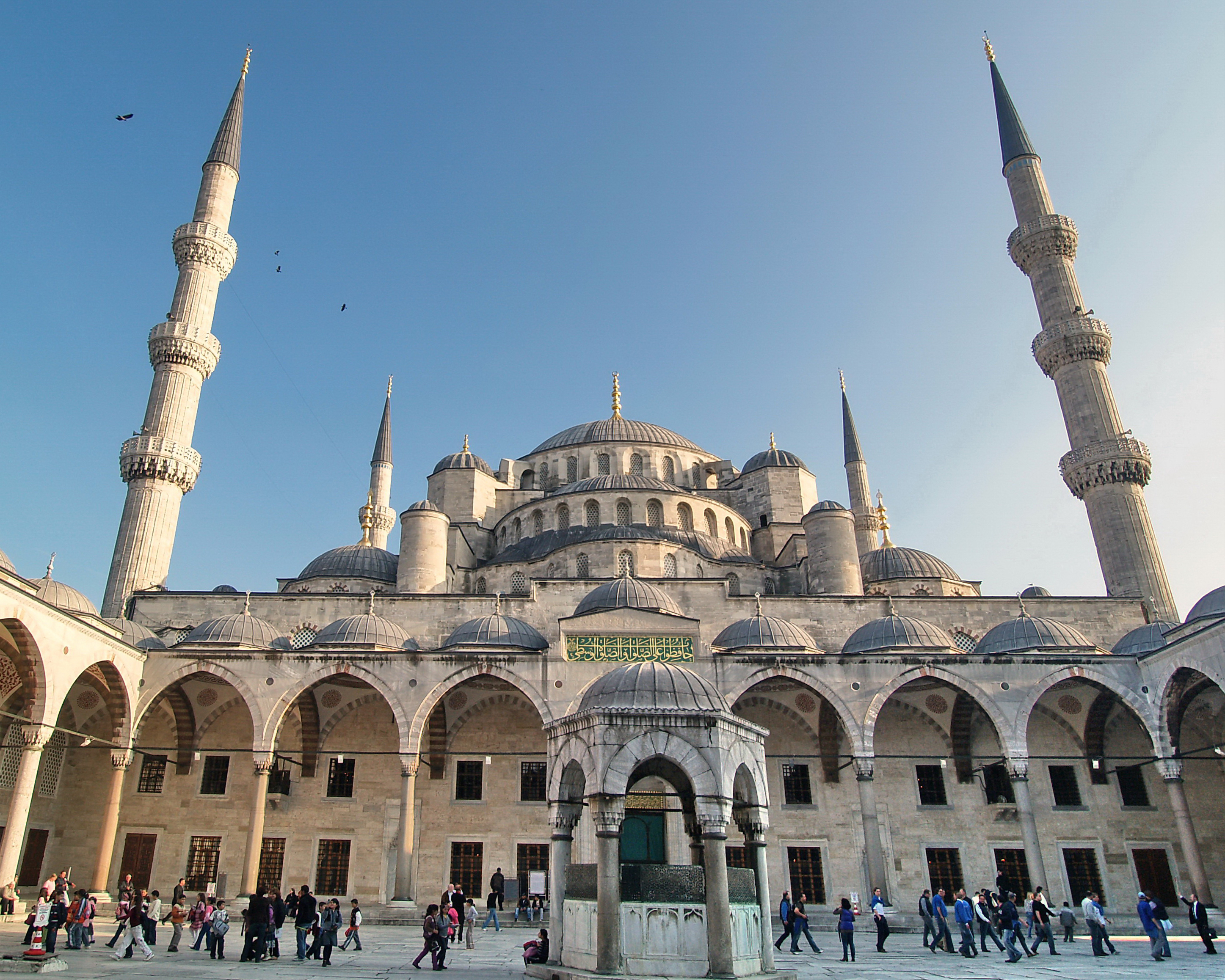 Sultan Ahmet Cami (Blue Mosque) courtyard, Istanbul, Turkey